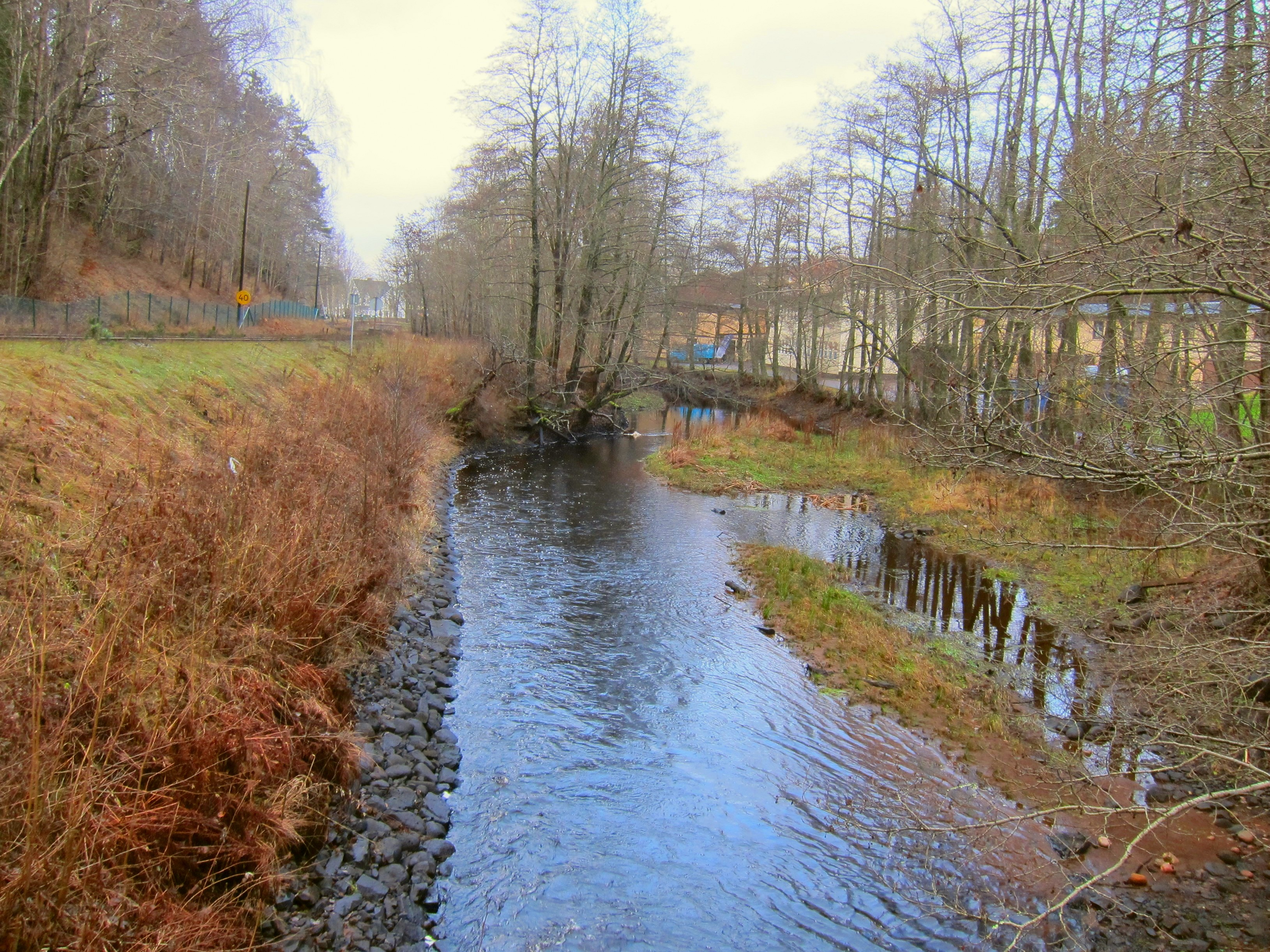 Tabergsån.